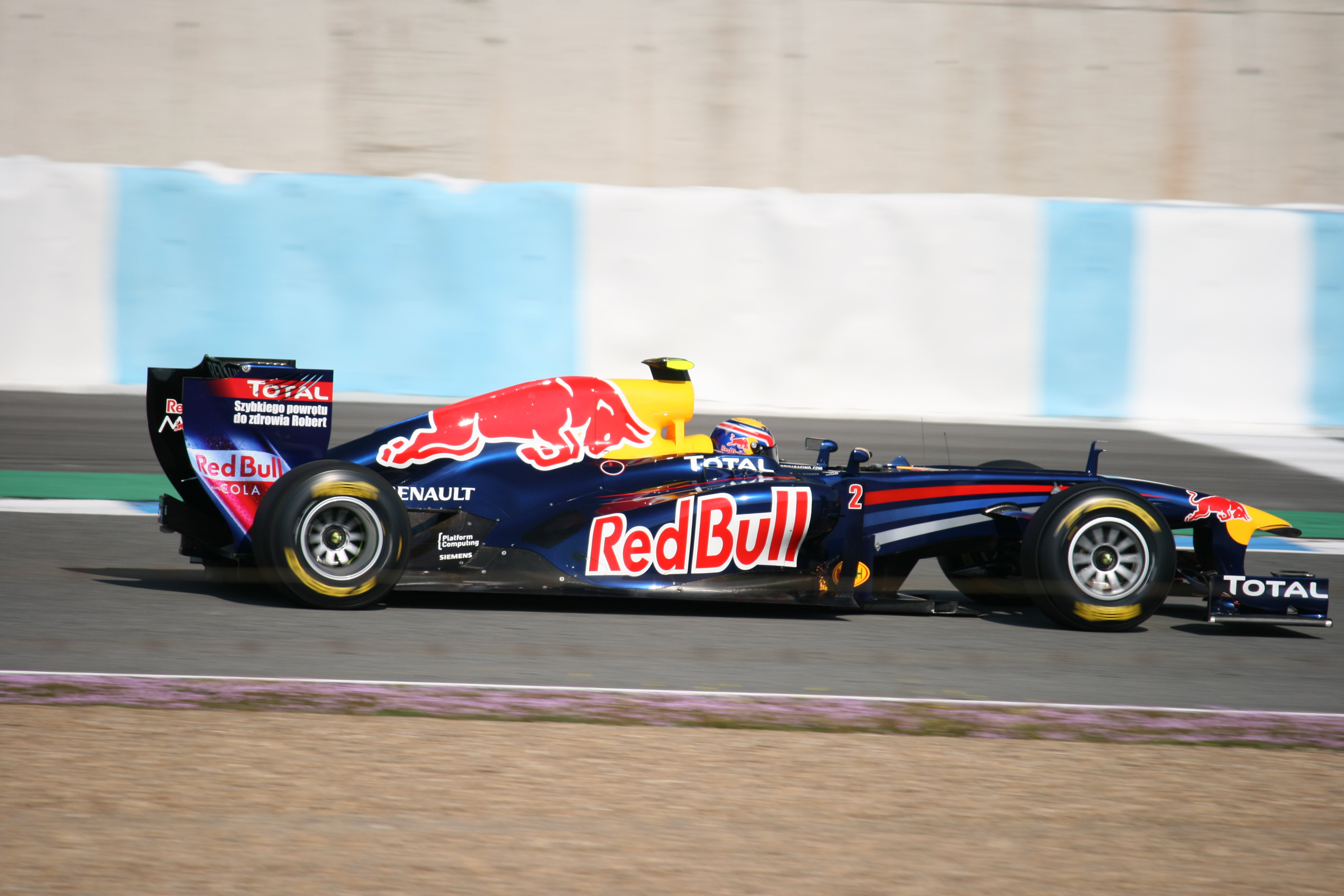 Mark Webber testing the RB7 for Red Bull Racing at Jerez.